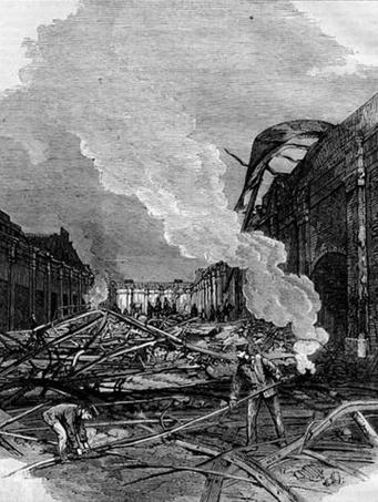 Patent Office 1877 north wing right after fire